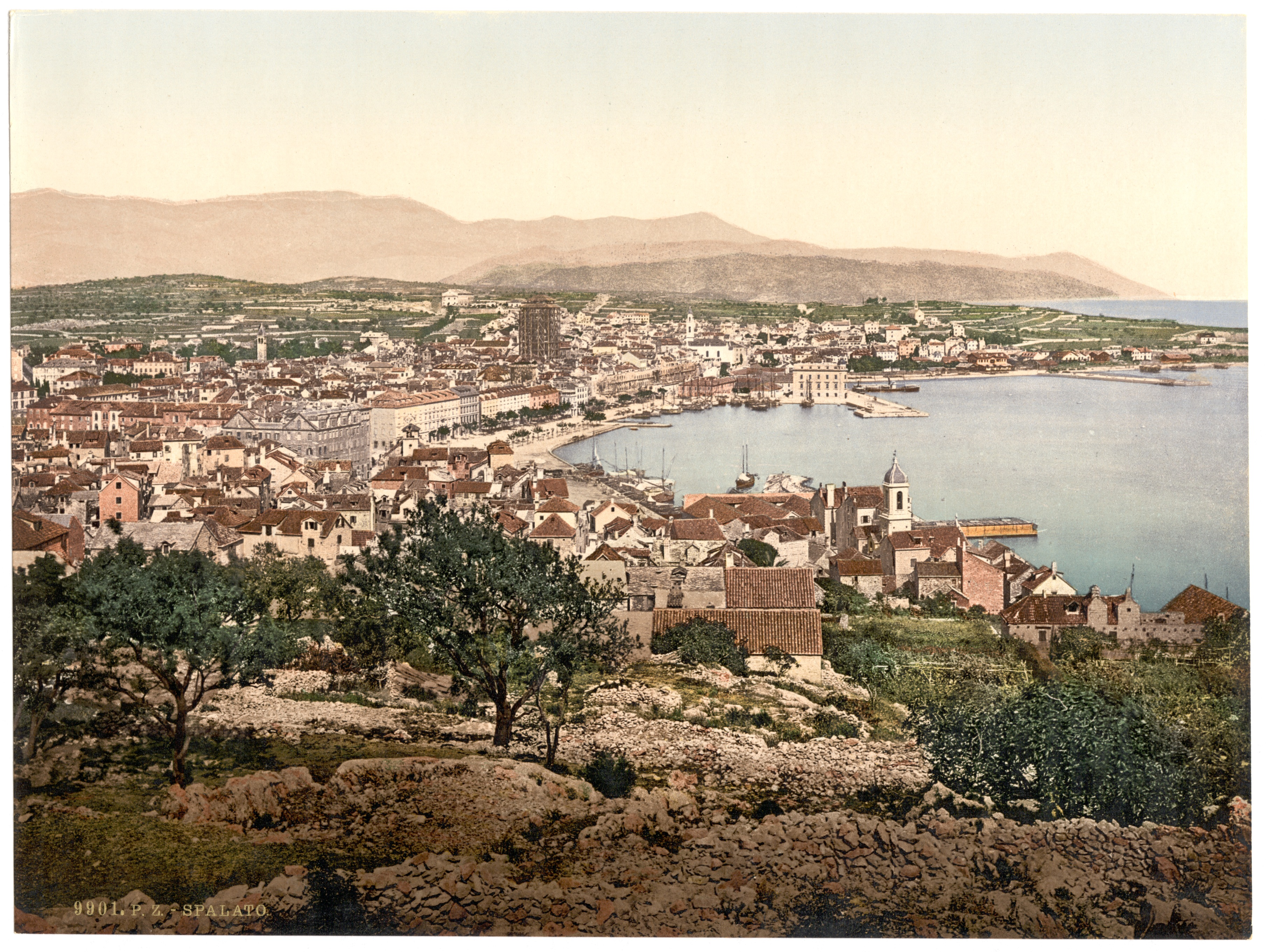 Print no. "9901".; Forms part of: Views of the Austro-Hungarian Empire in the Photochrom print collection.; Title from the Detroit Publishing Co., Catalogue J-foreign section, Detroit, Mich. : Detroit Publishing Company, 1905.